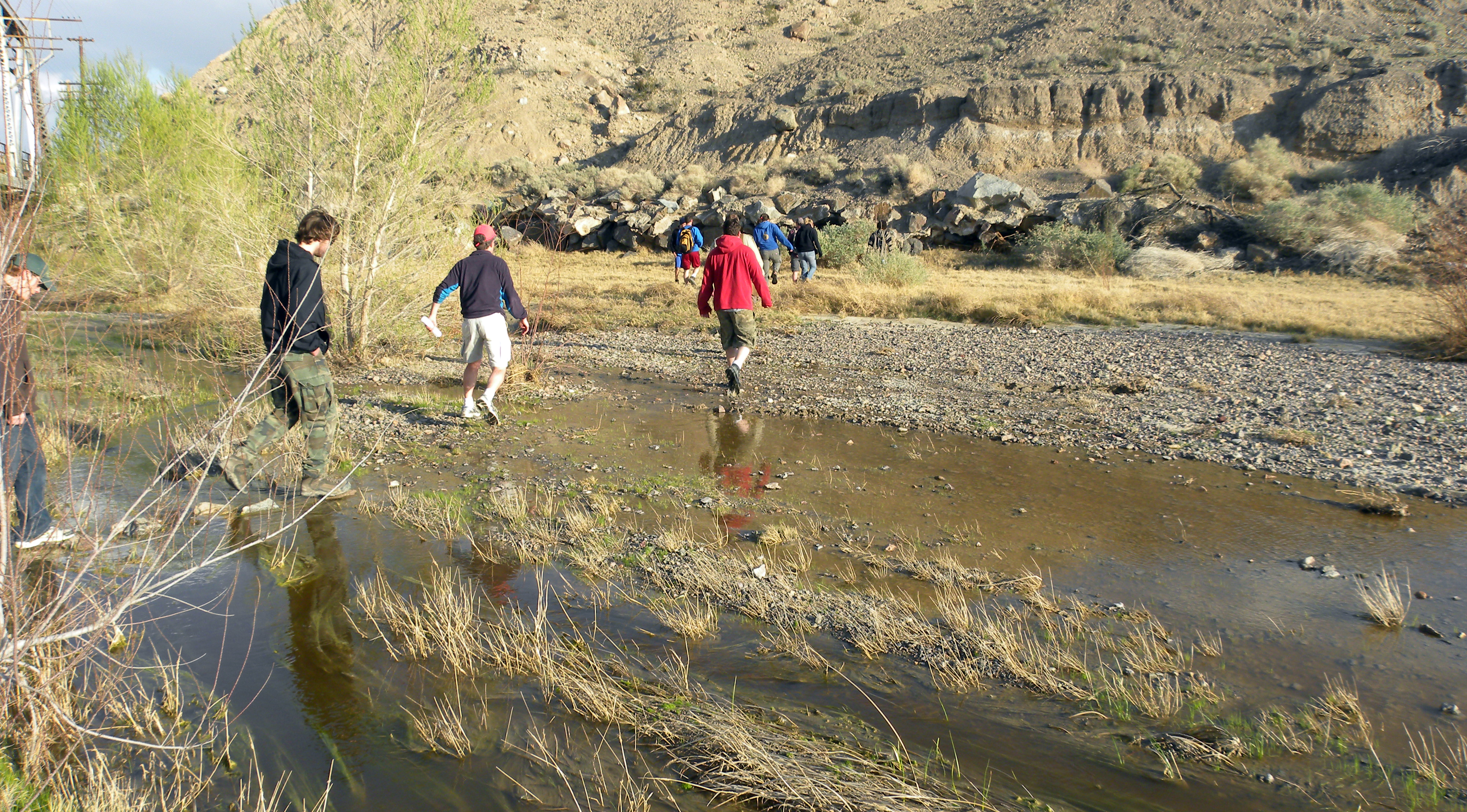 The Mojave River — surfacing in Afton Canyon, in the Mojave Desert. Taken in March 2010.